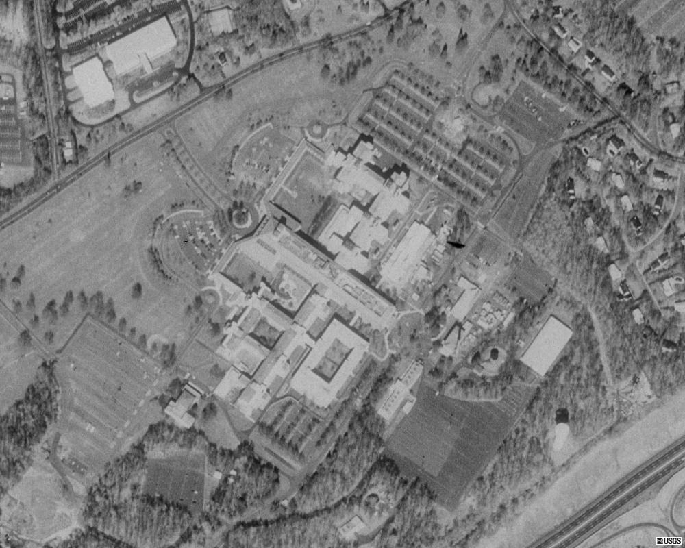 AT&T Bell Labs in Murray Hill, NJ, later Lucent and then Alcatel labs.